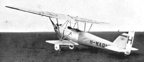 Pander E